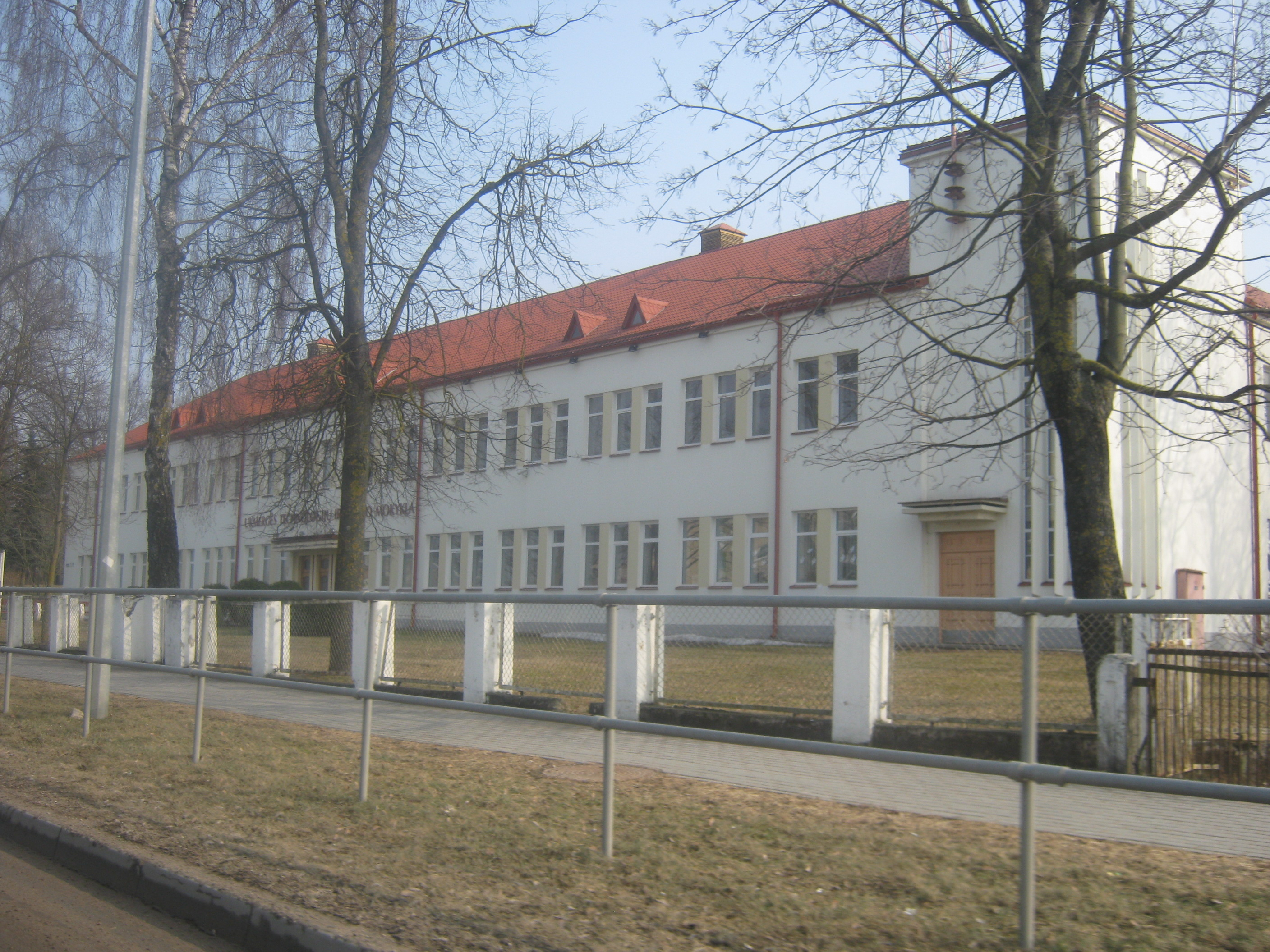 Technologies and Business school of Ukmergė